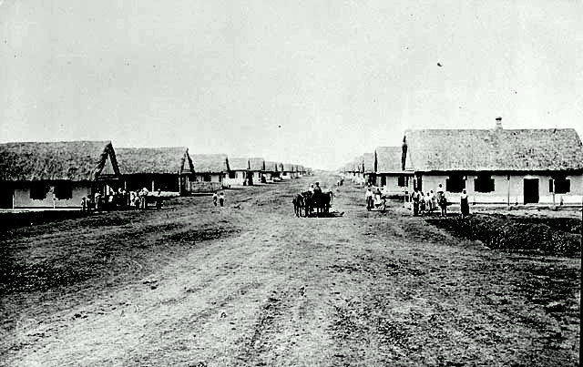 Village of Vosnesenya - Thunder Hill Colony. Architecture and Village layout copied from the Doukhobor Villages in Caucasia. (For location, north-east of Arran, SK